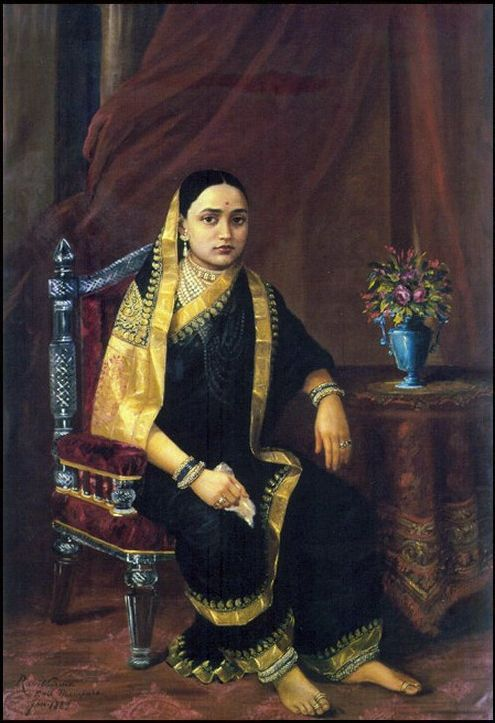 Portrait of Maharani Chimanbai